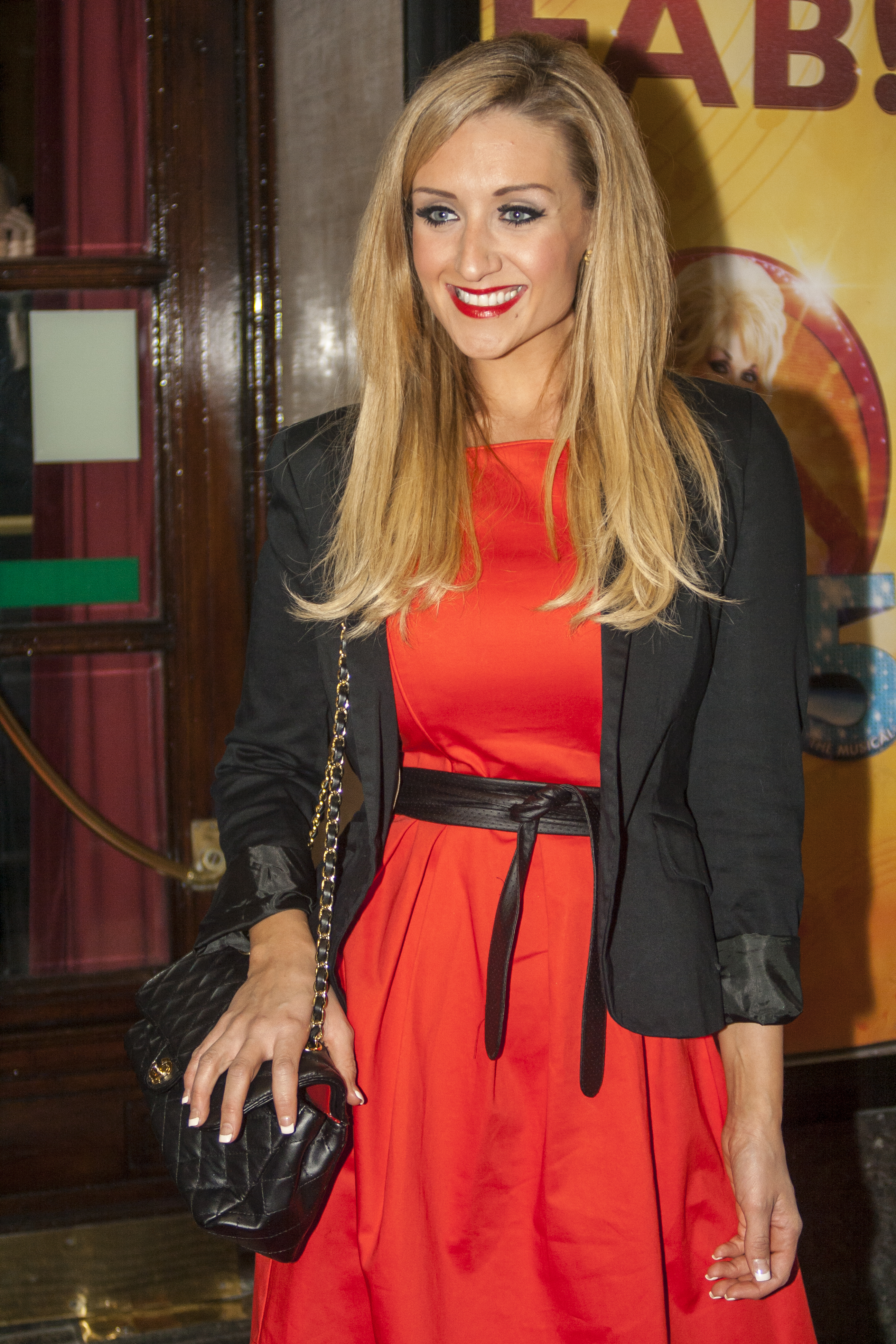 Catherine Tyldesley outside the Manchester Opera House for a performance of the 9 to 5 musical in 2012.